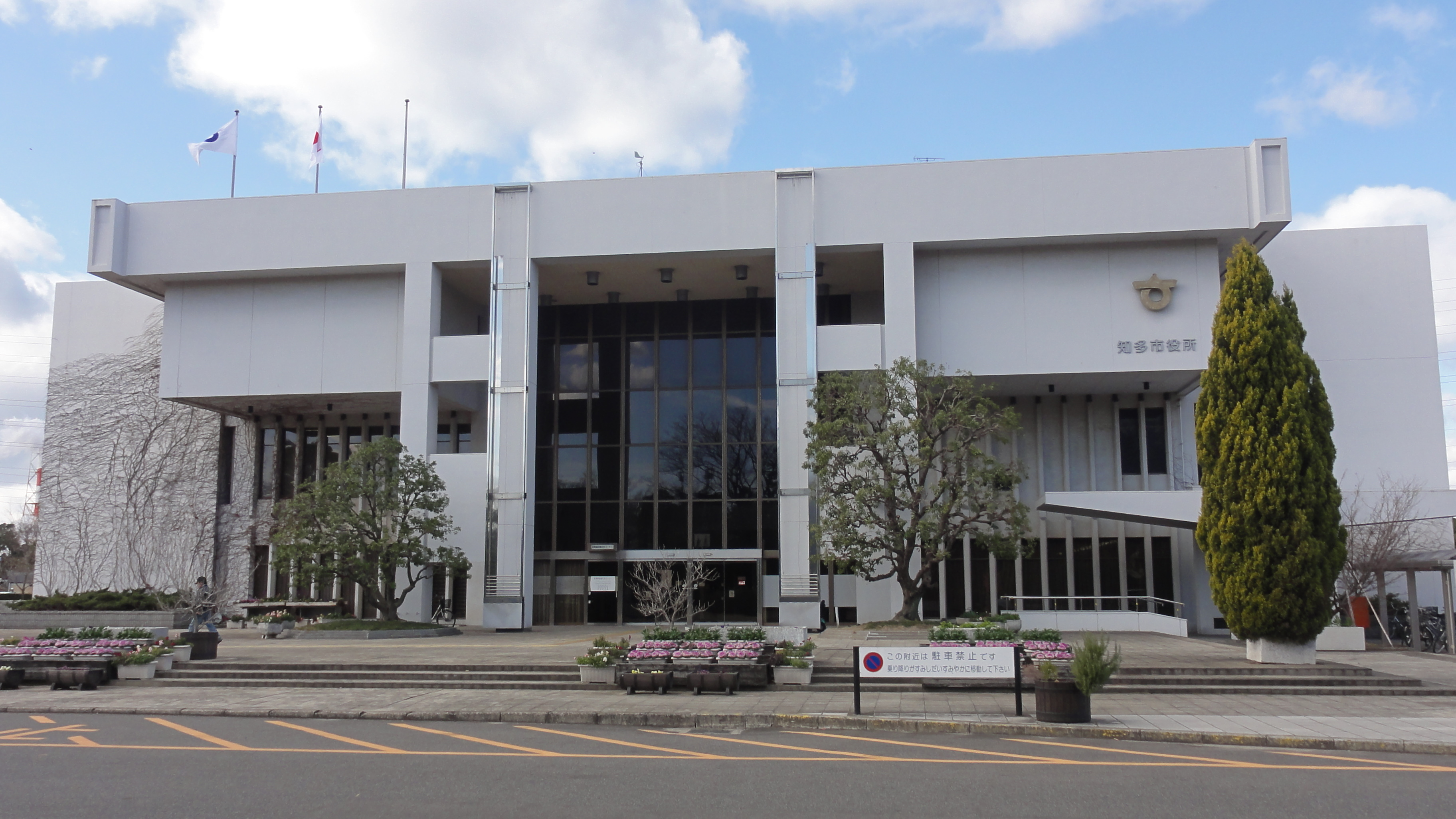 Chita city office,Aichi prefecture,Japan